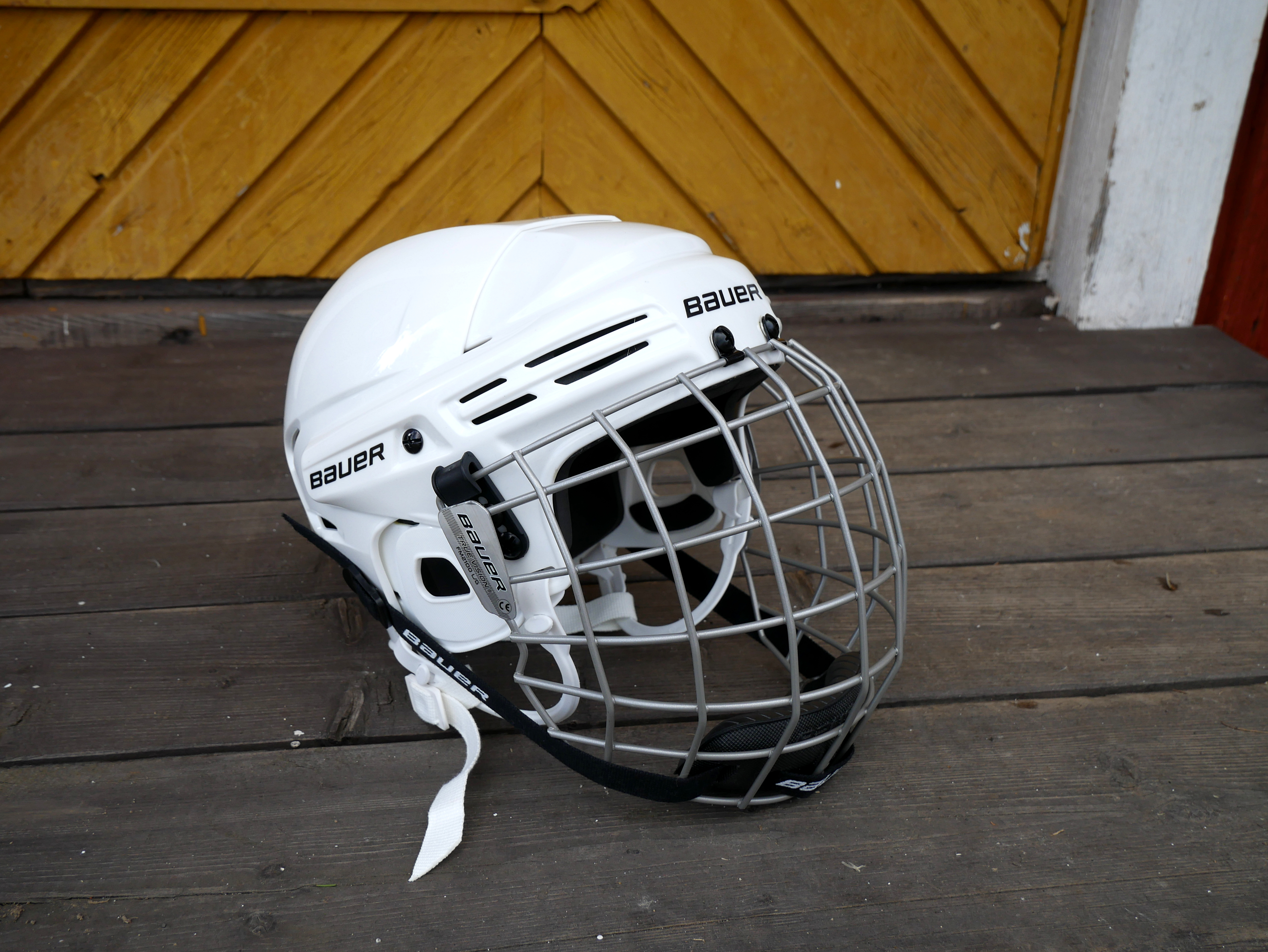 Bauer BHH2100L ice hockey helmet.